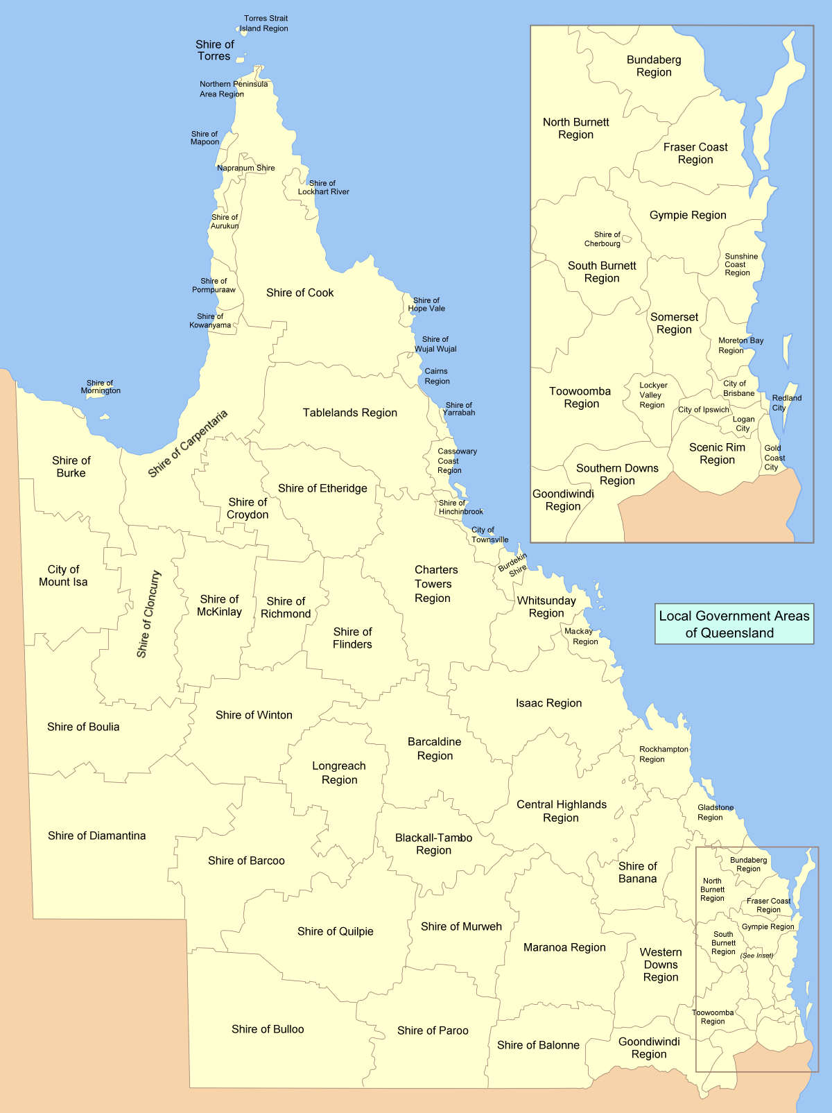 Local Government Areas of Queensland as of March 15 2008. Reference: Stronger Councils (Map of old councils: Local Government Publications)